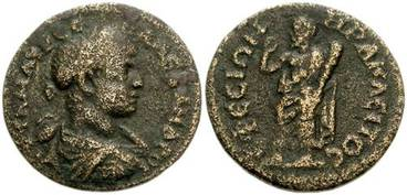 IONIA, Ephesus. Severus Alexander. AD 222-235. 22mm philosopher Heraclitus (the obscure)